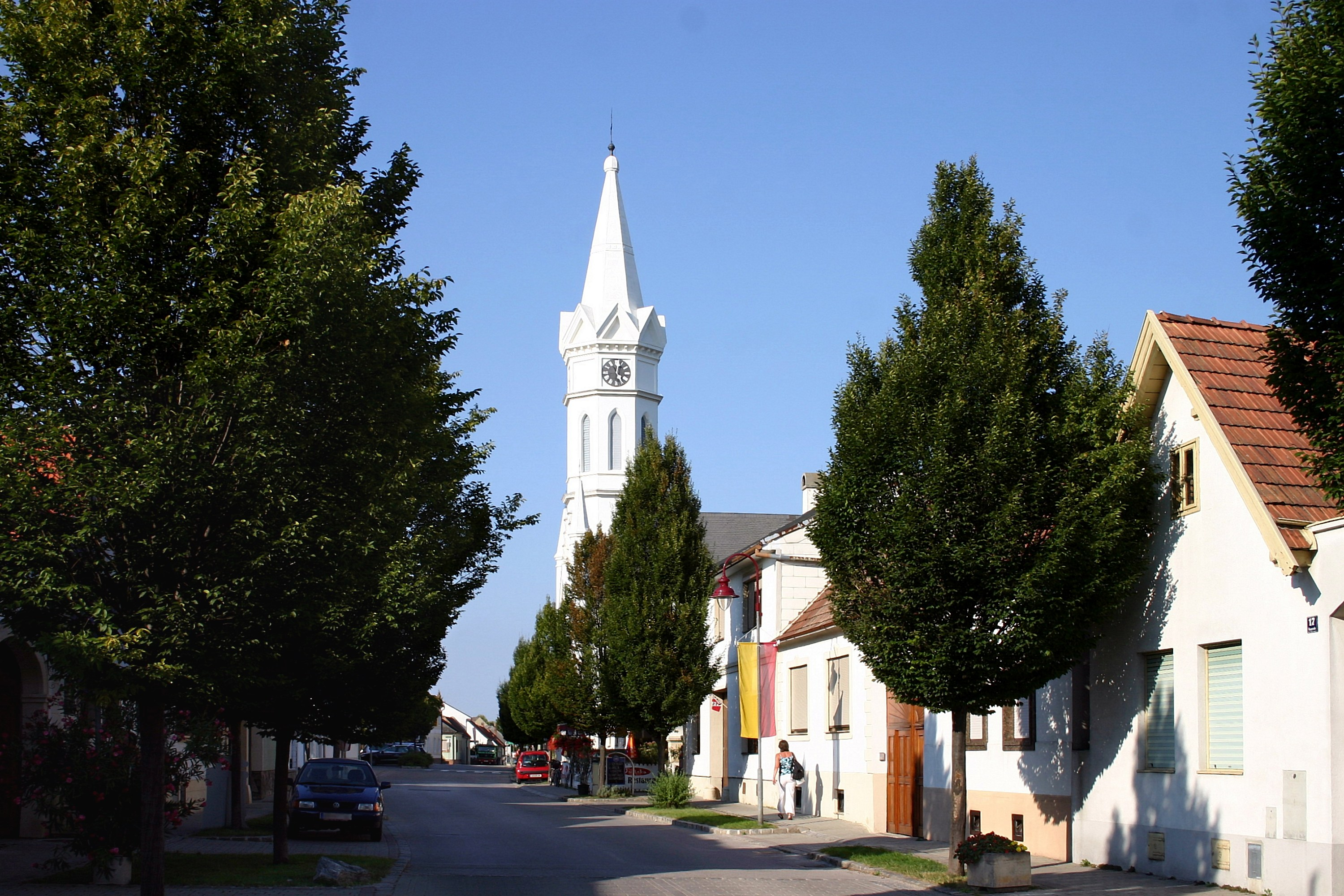 Mörbisch am See - Streetview of the mainstreet